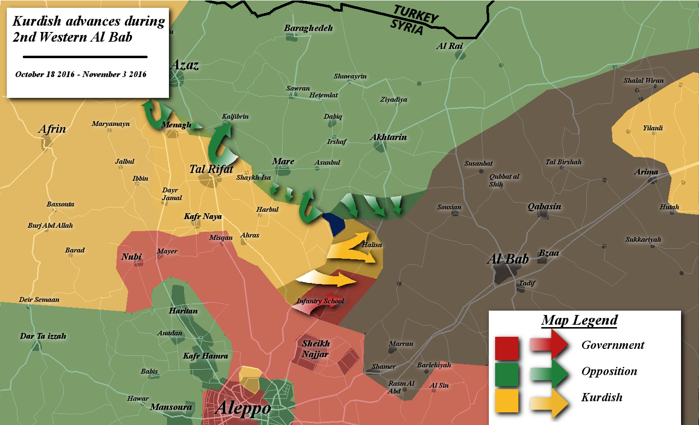 A simplified map of Kurdish advancements during the second Western Al Bab offensive. Created in gimp 2.8. Influenced by many maps from creators: MrPenguin20, PetoLucem, Edmaps Syria, and so on.